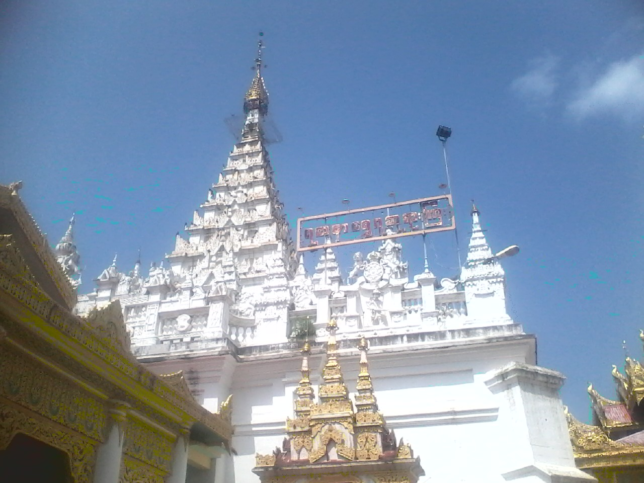 Chaung-U